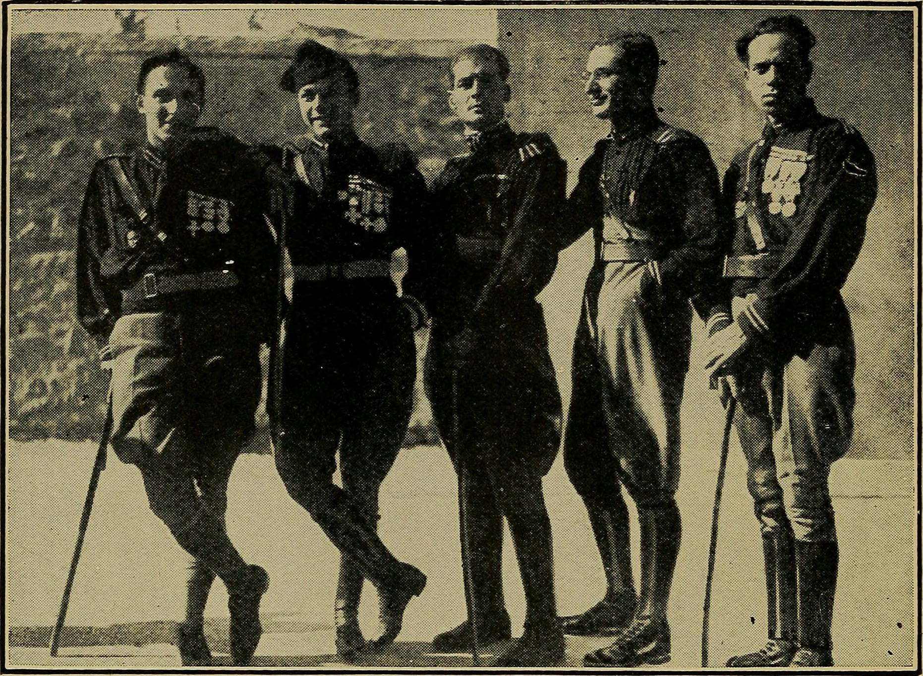 Title: The "red" dragon and the black shirts; how Italy found her soul; the true story of the fascisti movement Year: 1922 (1920s) Authors: Phillips, Percival, Sir, 1877-1937 Subjects: Partito nazionale fascista (Italy) Communism Publisher: London, Carmelite house Text Appearing Before Image: IV Text Appearing After Image: TYPICAL FASCISTI